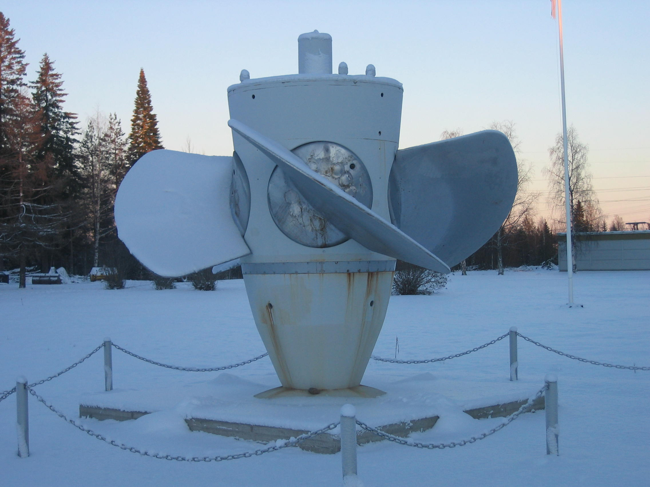 A memorial made out of a water turbine in the Jylhämä power plant, Vaala, Finland.